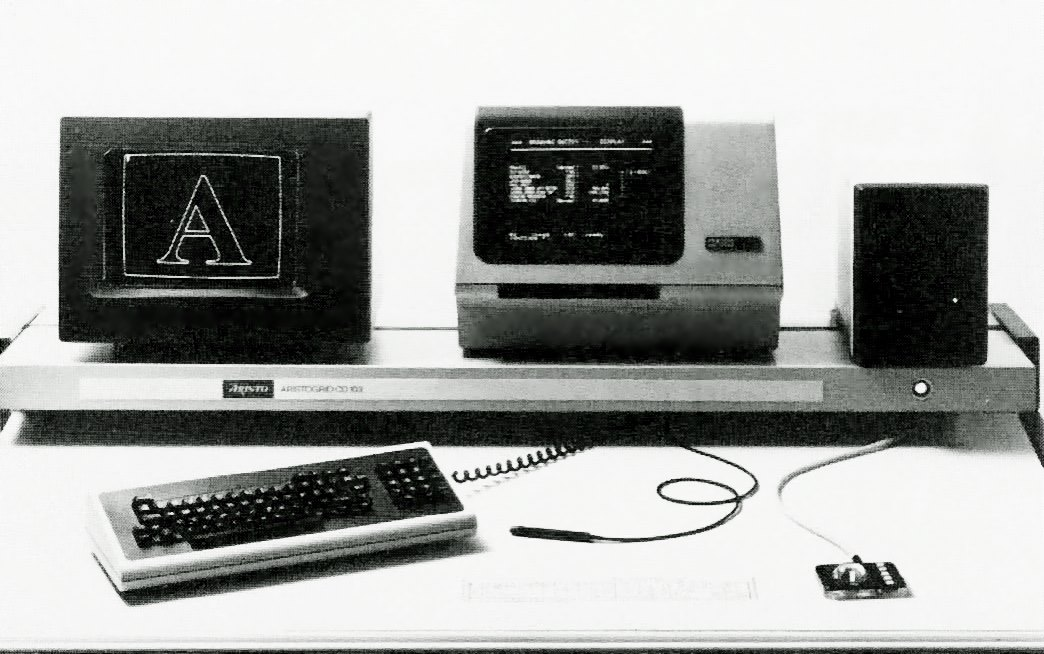 Digitizer 1972